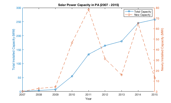 Graph of installed capacity and newly installed capacity for solar power in PA.